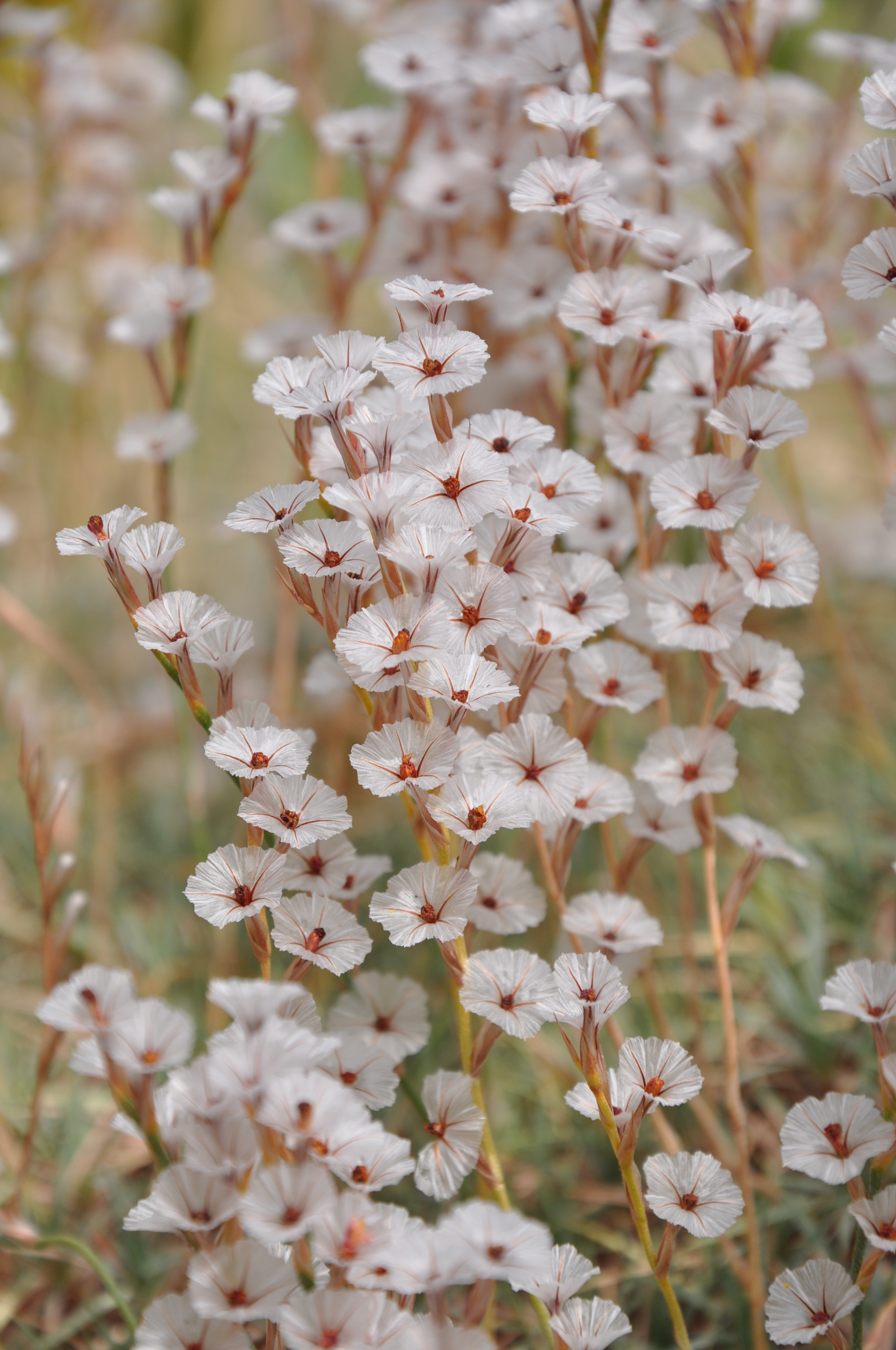 Armenian Prickly Thrift